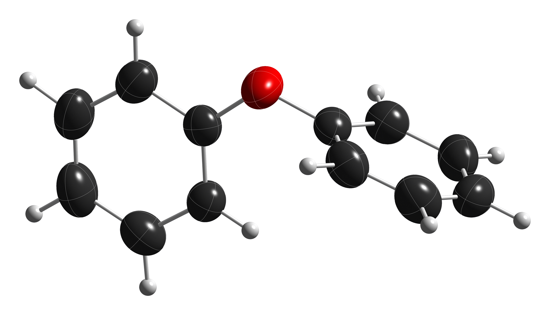 Thermal ellipsoid model of the structure and conformation of the diphenyl ether molecule, Ph2O, in the crystal structure. The thermal ellipsoids are at the 50% probability level. Colour code: Carbon, C: grey-black Hydrogen, H: white Oxygen, O: red Crystal structure from J. Am. Chem. Soc. (2004) 126, 12274–12275. Model constructed and image generated in CrystalMaker 8.2.